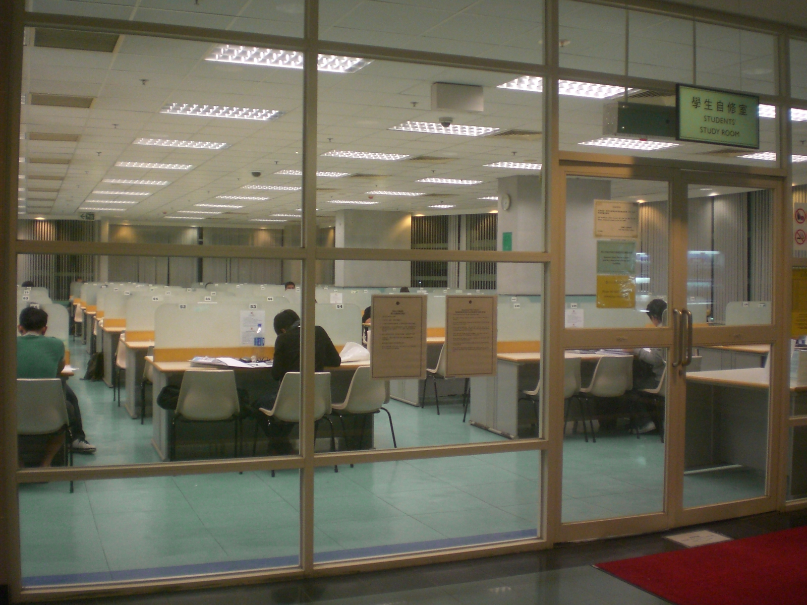 香港柴灣公共圖書館zh:自修室